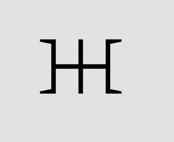 Ummo symbol. Developed with File:Astrological glyphs of planets.svg, from File:San José de Valderas 5.jpg.